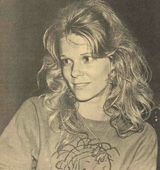 newspaper photograph of Jennifer Billingsley